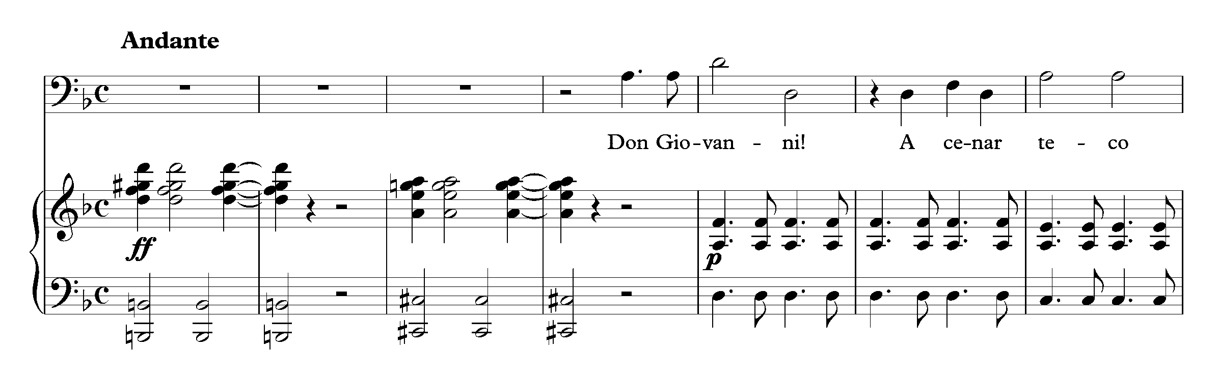 The opening bars of the Commedatore's aria in Don Giovanni